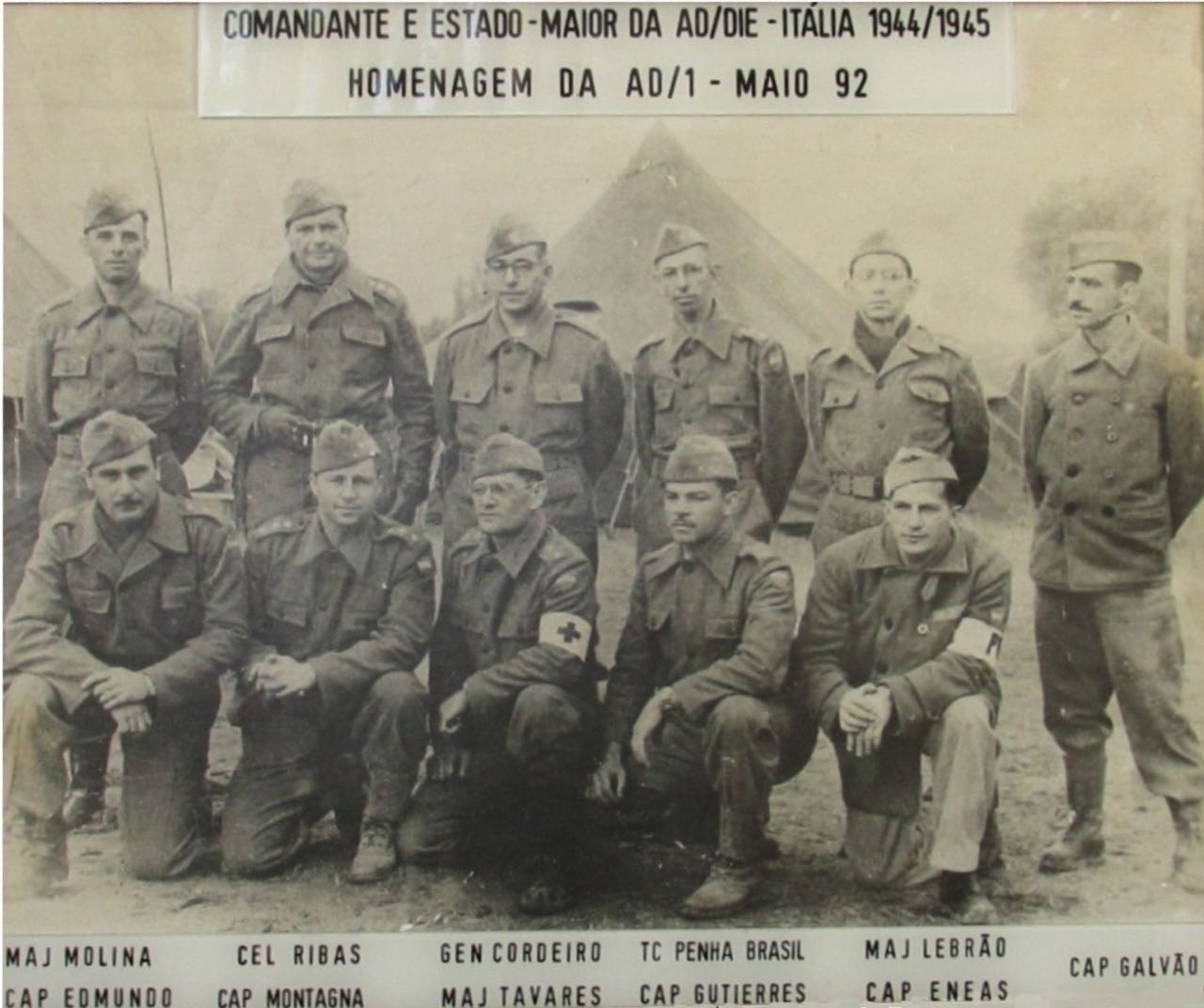 Marshall Cordeiro de Farias at World War II.